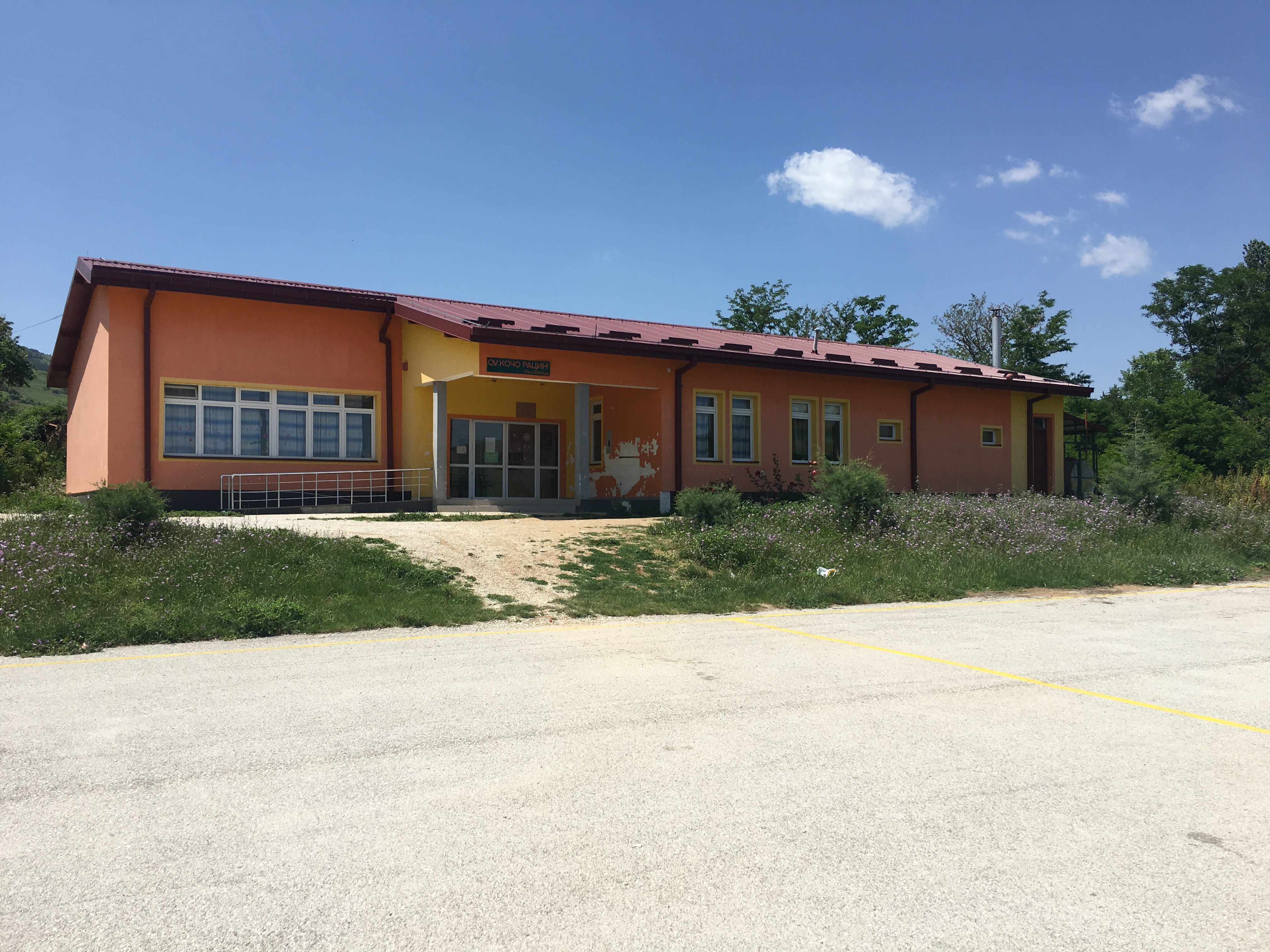 The primary school in the village of Dolno Srpci